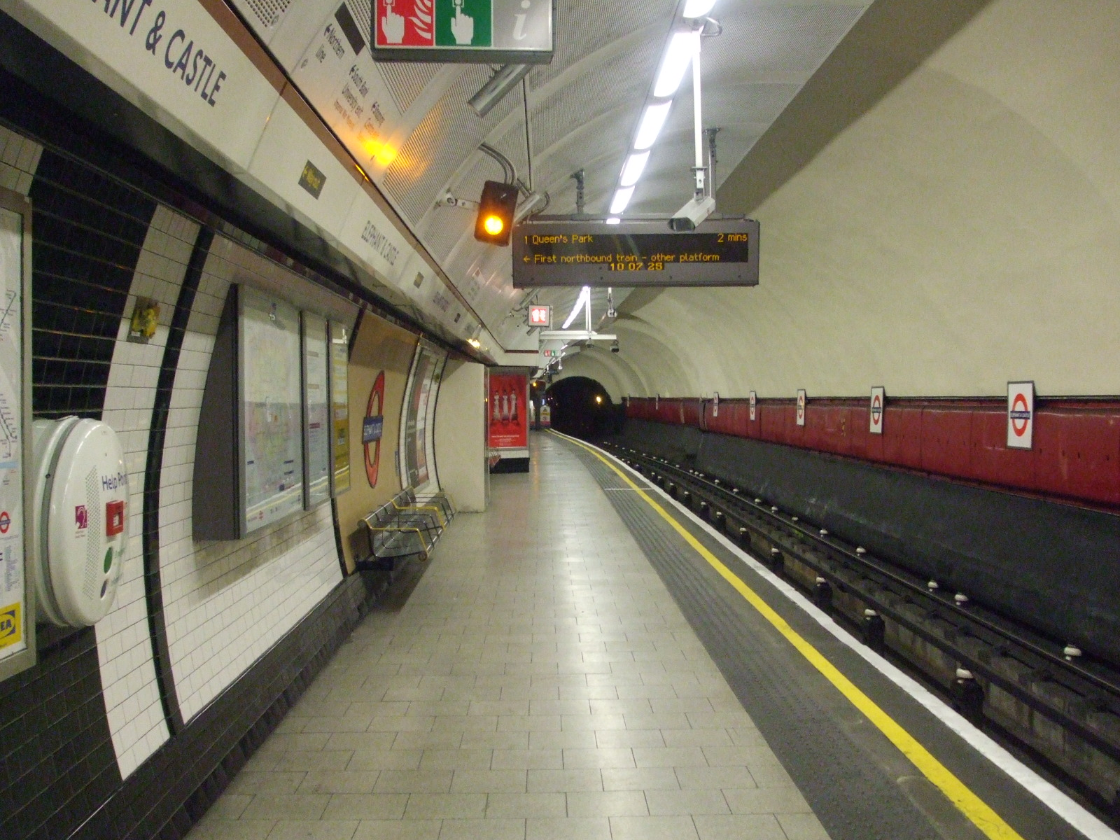 Elephant & Castle tube station Bakerloo line eastern terminating platform looking north